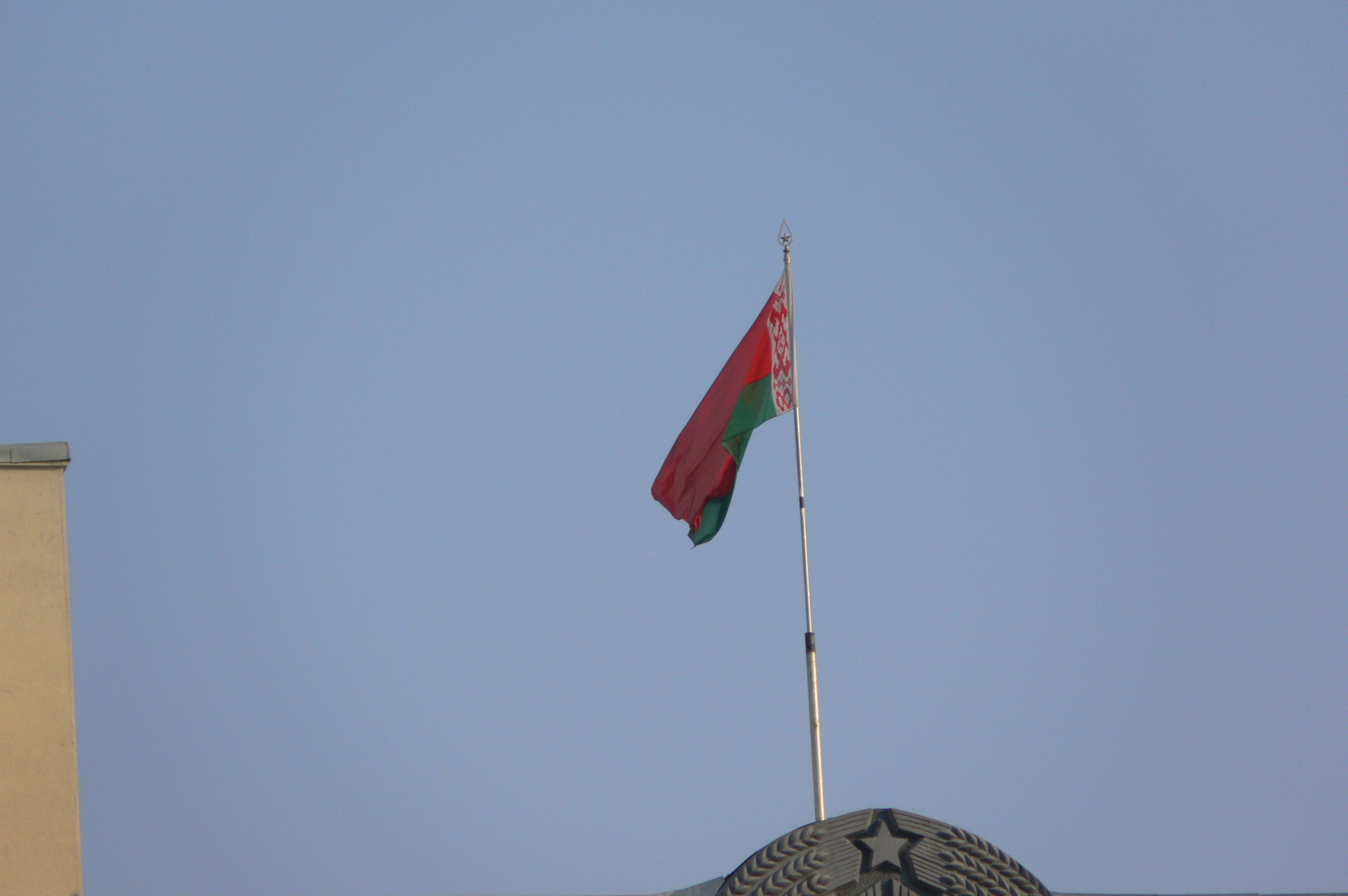 Flag of Belarus